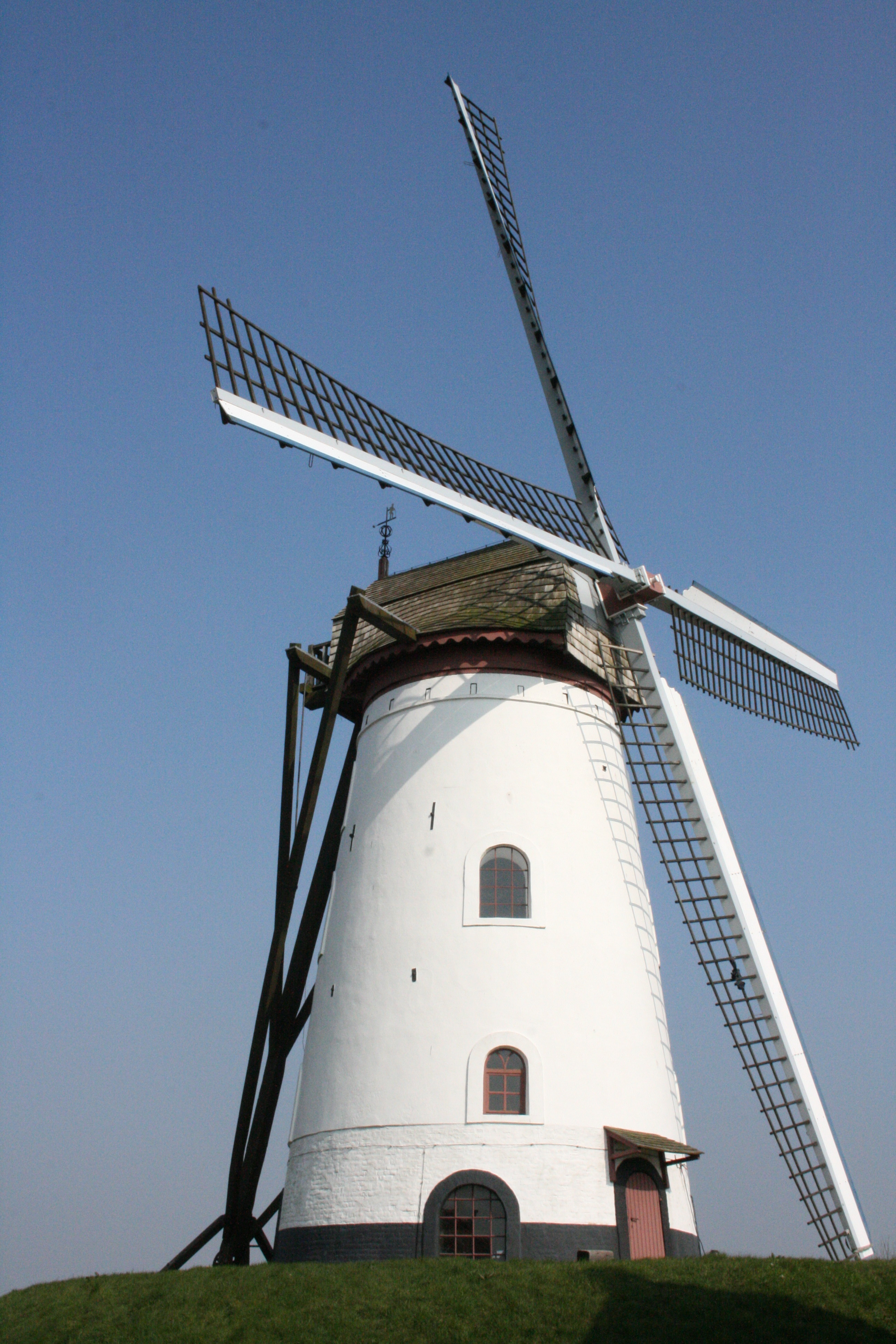 Hovaeremolen in Koekelare, West Flanders, Belgium.